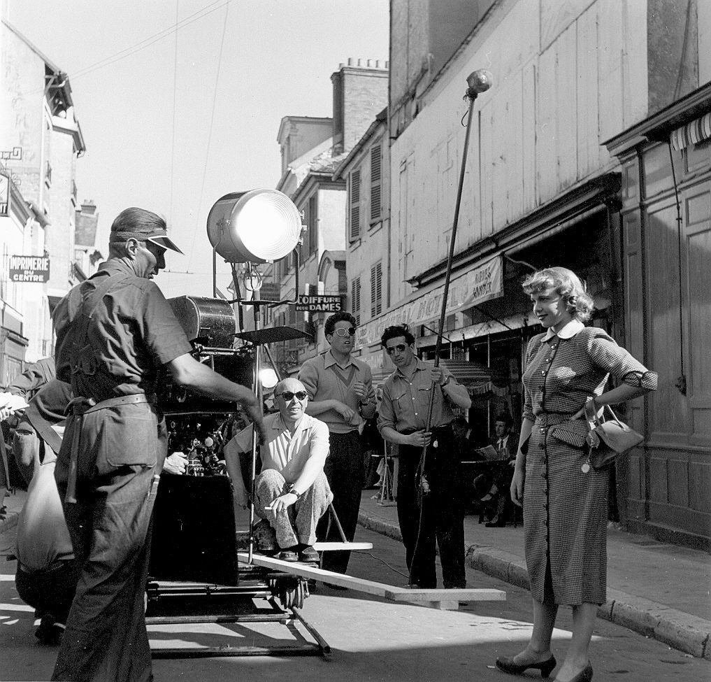 Emil-Edwin Reinert directing 'Le Destin s'amuse', springtime 1947